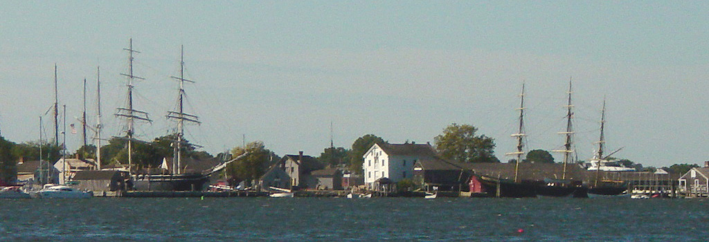 Overview of Mystic Seaport, August 2002. Image by User:Leonard G.